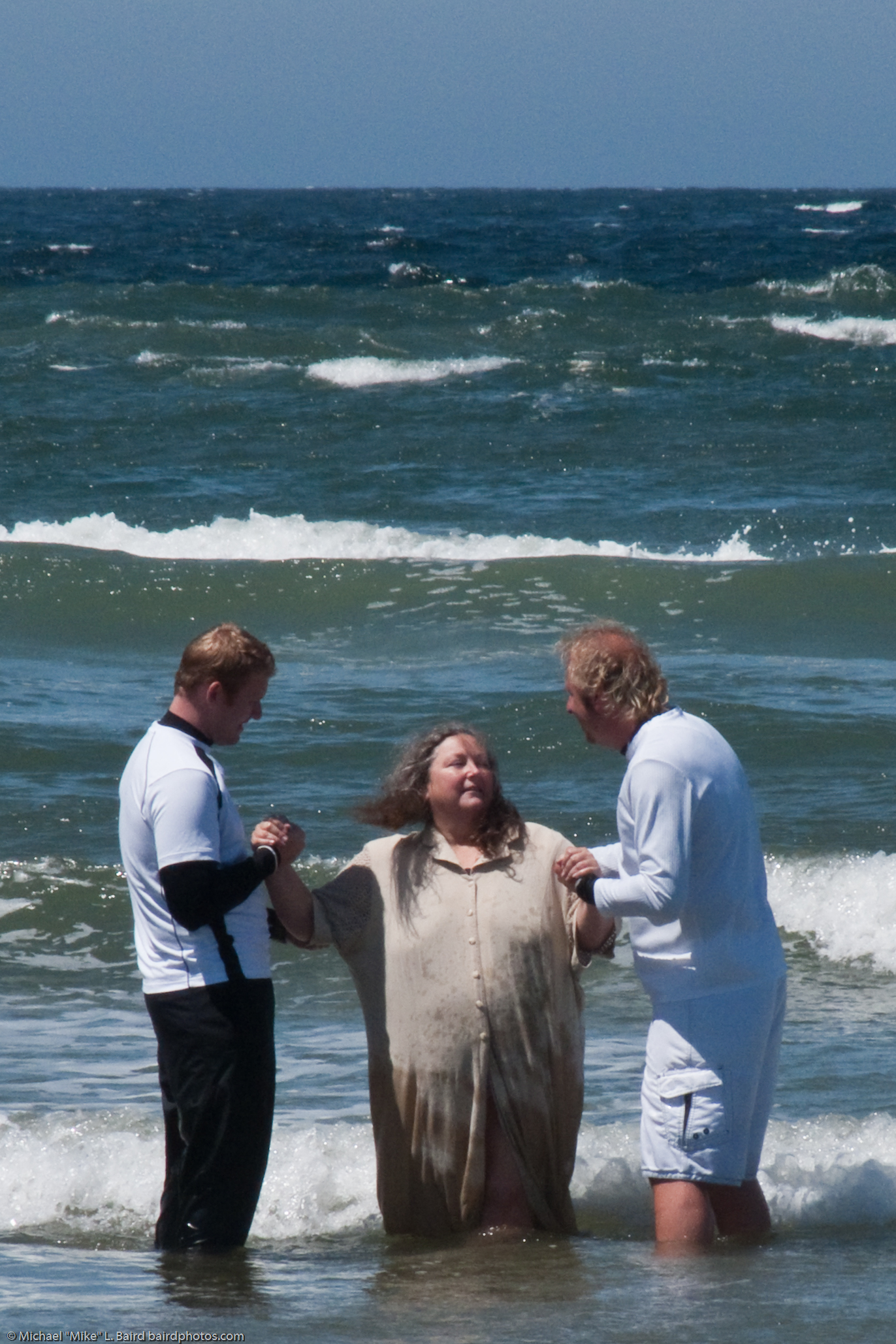 Mass baptism performed on Easter Sunday 12 April 2009 at Morro Rock in Morro Bay, CA. Snapshot by Michael "Mike" L. Baird, mike at mikebaird d o t com, , Panasonic FZ50 handheld.